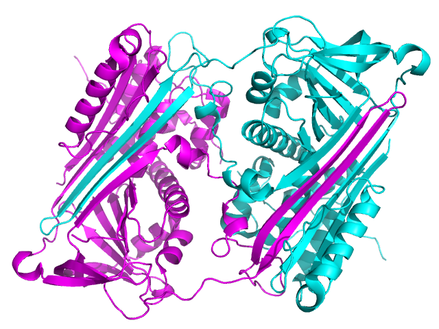 X-ray crystal structure of a domain swapped antiithrombin dimer (Yamasaki et al., Nature)